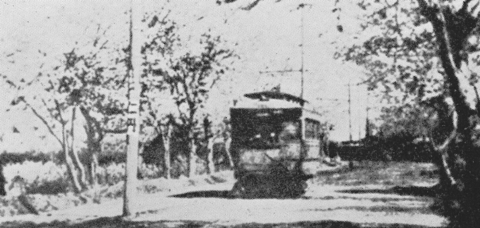 A tram car of Daishi electric railway in 1904